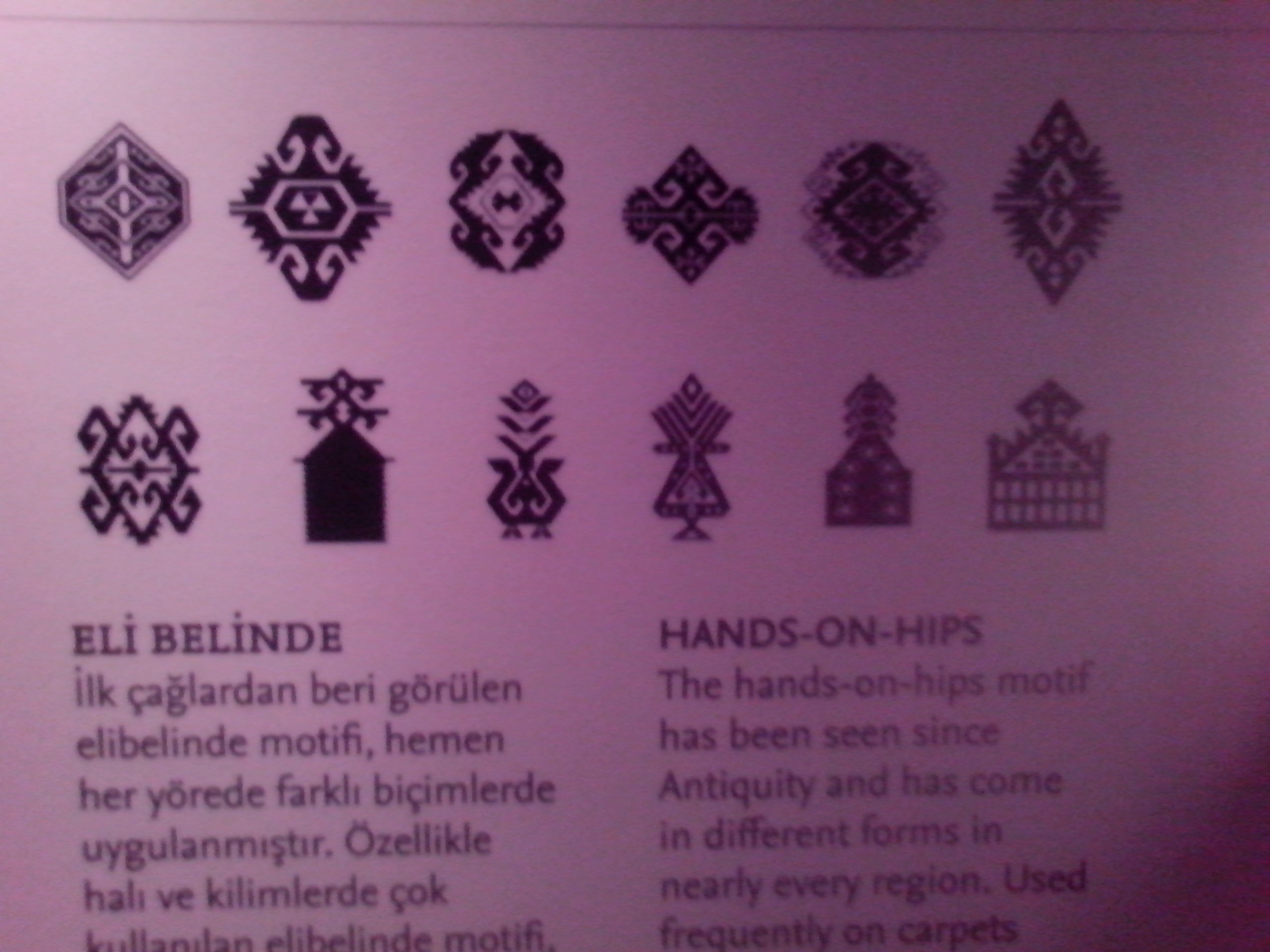 Turkish carpets